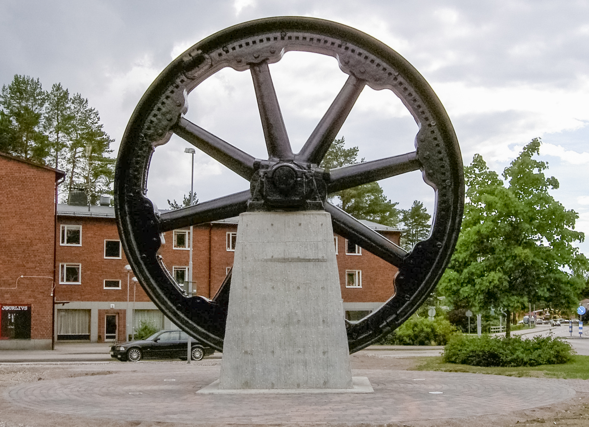 Wheel from the iron works of Horndal set up as a tourist attraction in the center of Horndal